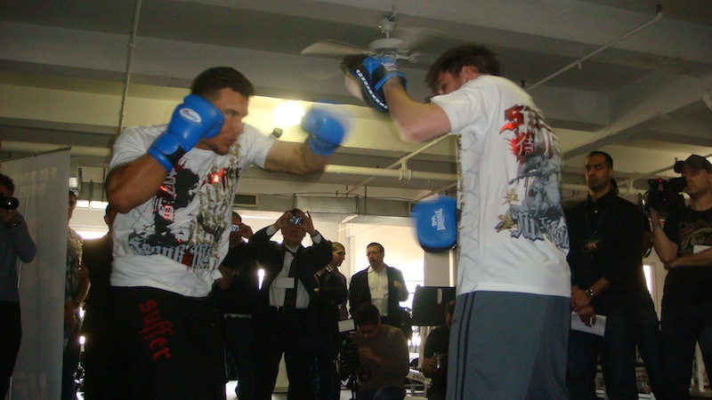 MMA fighter Frank Mir in allenamento.